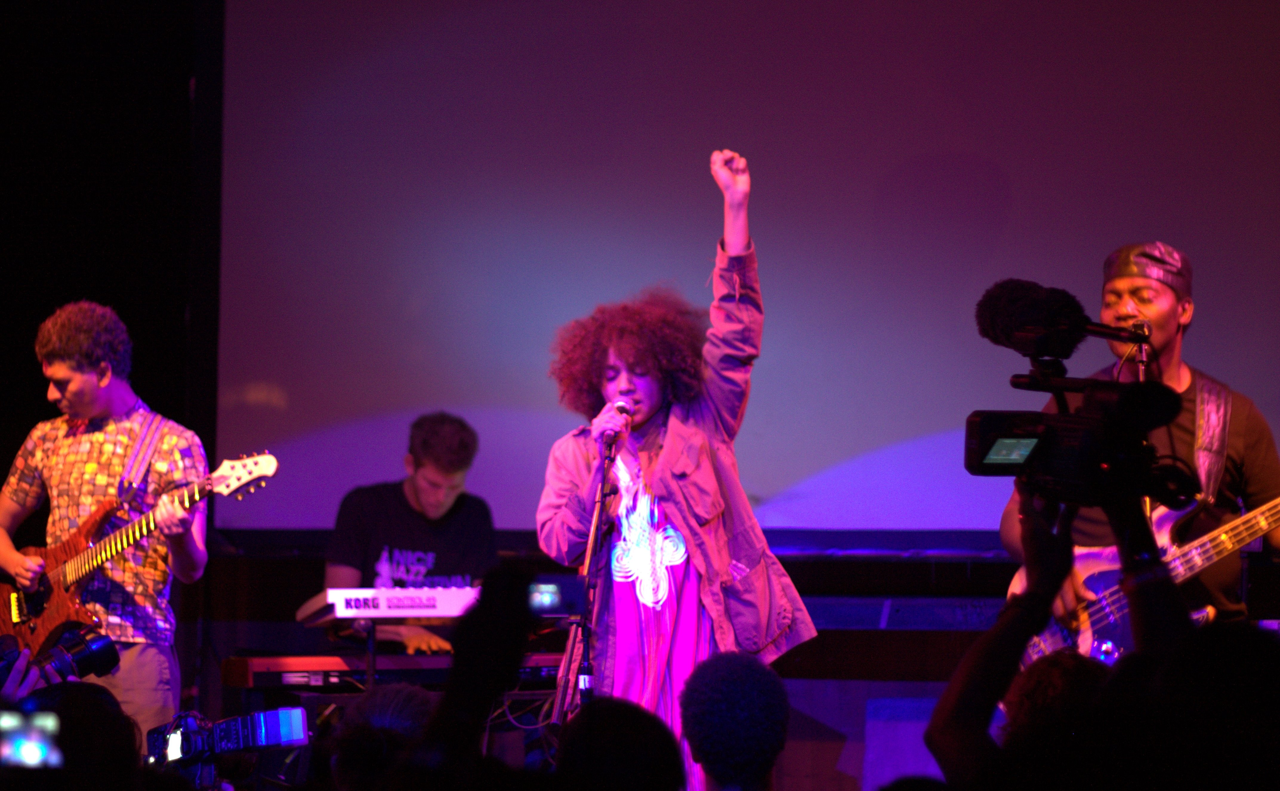 This image was originally posted to Flickr by .ledi at It was reviewed on 12:18, 28 July 2009 (UTC) by the FlickreviewR robot and confirmed to be licensed under the terms of the cc-by-2.0.